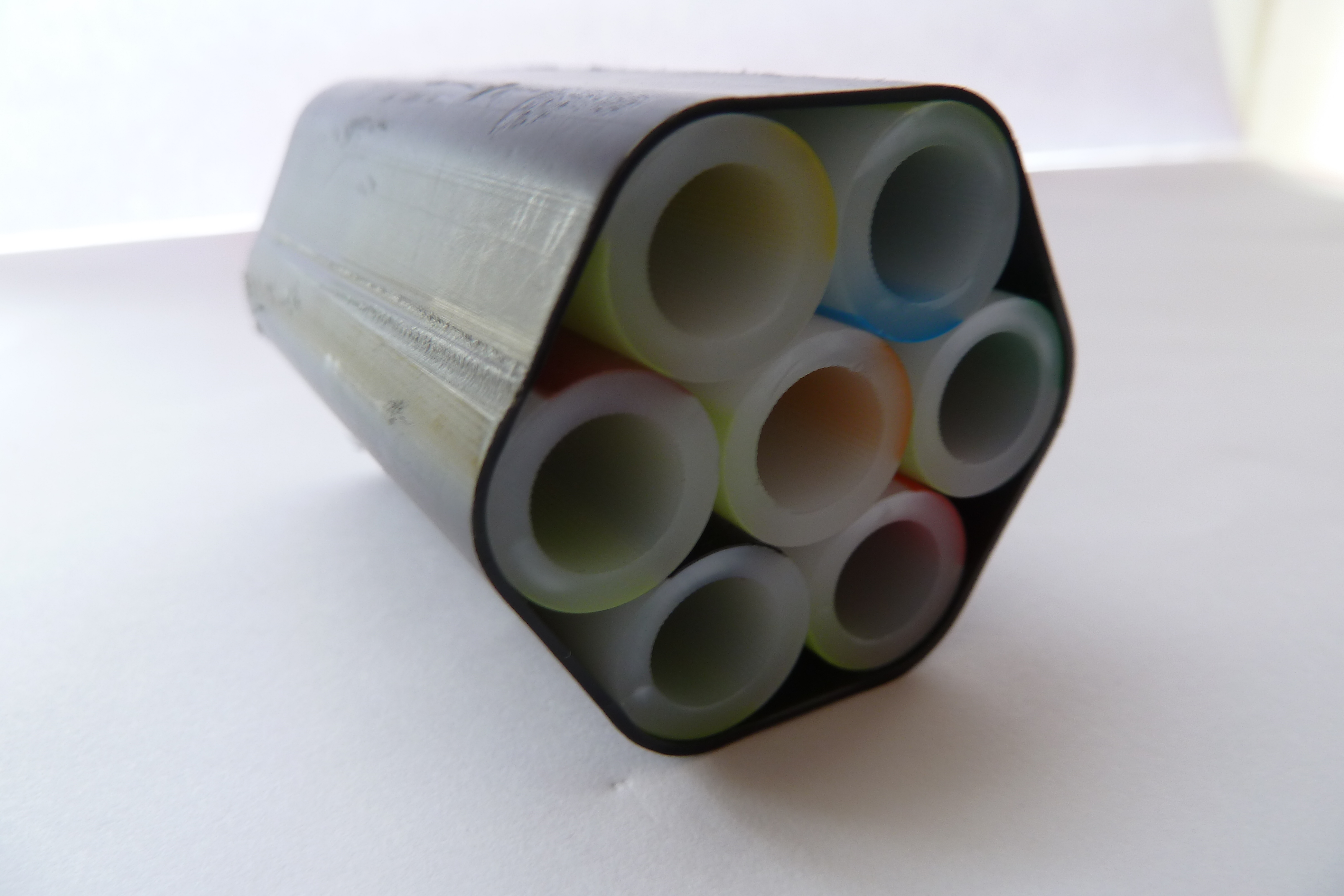 A pipe containing seven speedpipes for Fiber-optic cables.